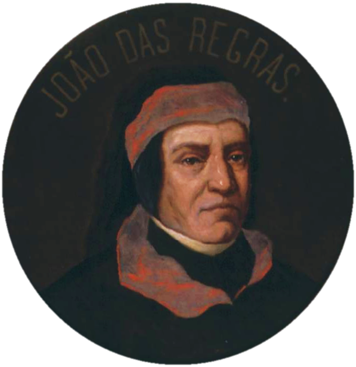 João das Regras, High Chancellor of the Kingdom of Portugal, under King John I. Portrait on the ceiling of the Great Hall of the City Hall, in Lisbon.